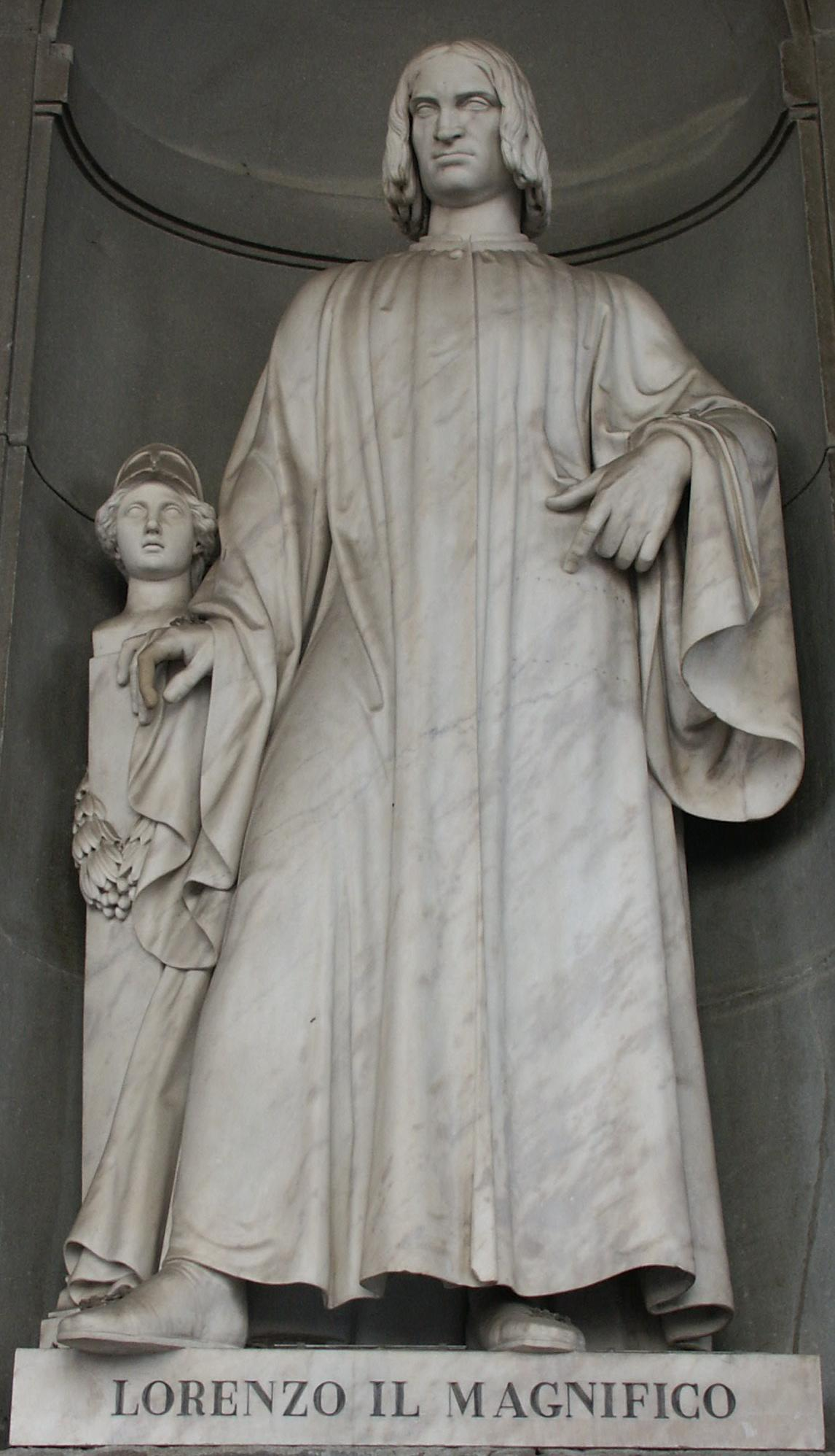 Statues at the Uffizi, on the facade of the Gallery building. Picture by used Frieda, September 18 2004.